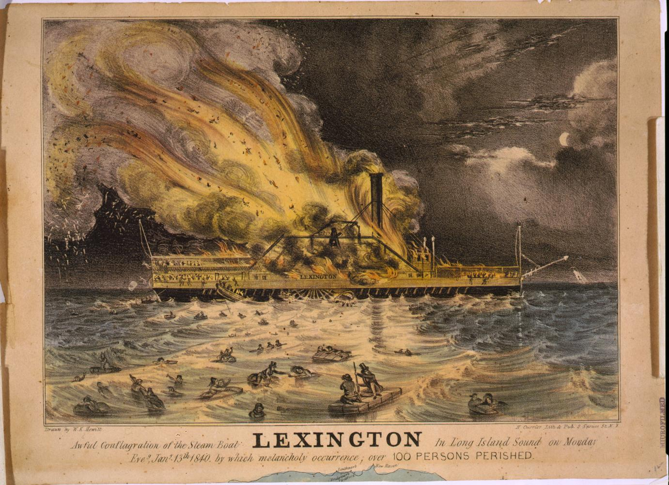 Awful conflagration of the steam boat Lexington in Long Island Sound on Monday eveg., Jany. 13th 1840, by which melancholy occurence; over 100 persons perished. Courier lithograph documenting a news event, published three days after the disaster.